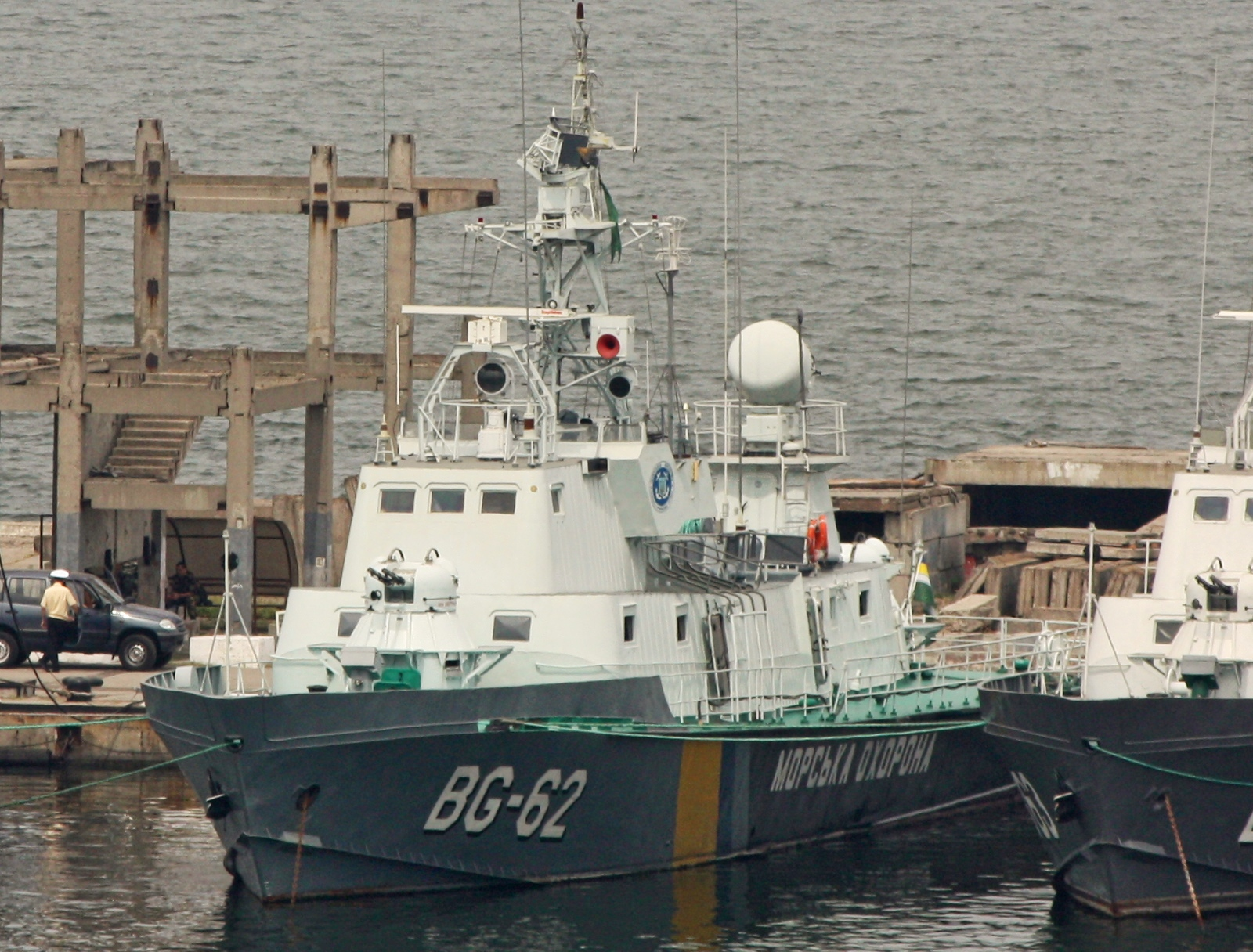 The Ukrainian (note the yellow and blue colors of the Ukrainian flag) border guard patrol boat BG-62 in Odessa in the Ukrain. The words on the side read МОРСЬКА ОХОРОНА (Ukrainian fpr “coats guard”). The Russian class name of the boot is “Project 205P”, the NATO code is Stenka class.